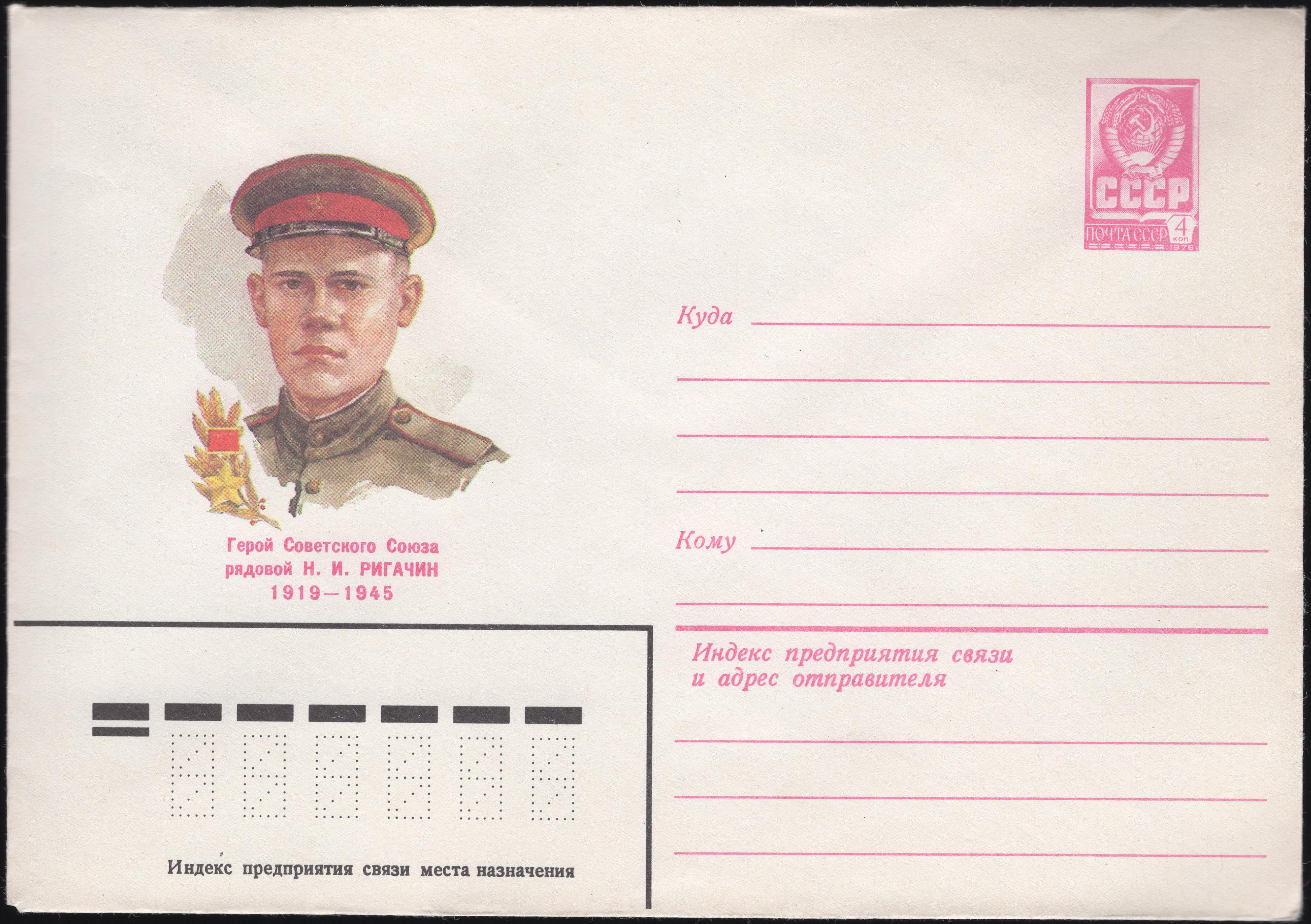 Hero of the Soviet Union Private Nikolay Rigachin. 1919-1945. Series: Heroes of the Soviet Union. Artist Peter Bendel.